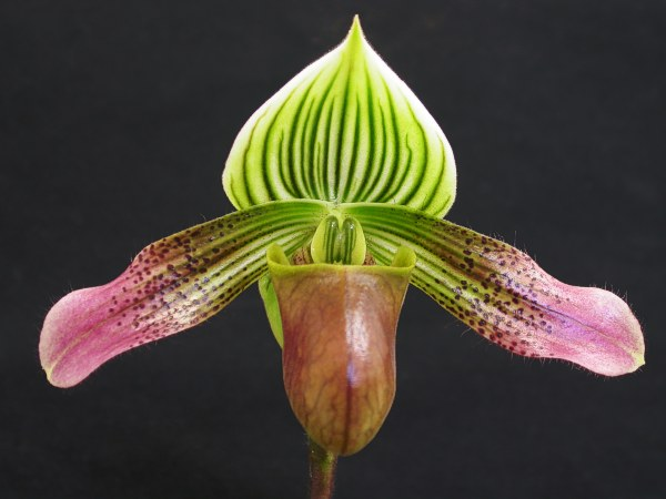 Paphiopedilum